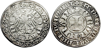 Germany. Frankfurt Circa late 16th Century. AR Turnose (Tournois (24mm, 2.68 g). Eagle surrounded by 14 lis in arches Cross; legends around in two lines. Saurma 2166/1065.